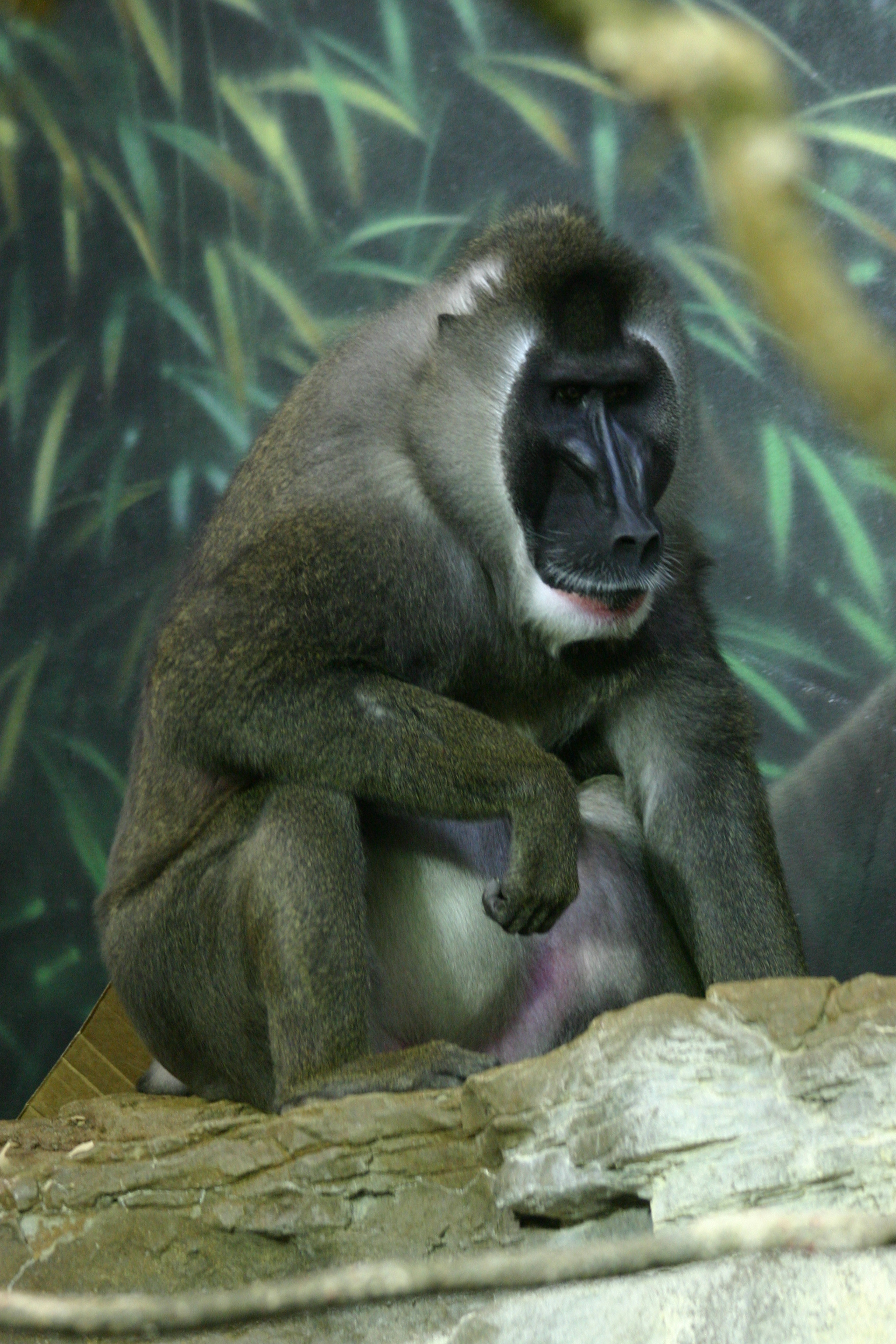 Drill, Mandrillus leucophaeus, at the Lincoln Park Zoo in Chicago. Taken with a Canon Digital Rebel and a Canon 70-300/4-5.6 IS USM. ISO 800, 1/13s.